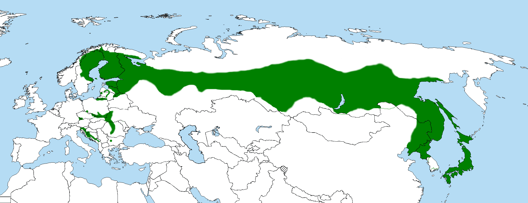 Strix uralansis -Range Map